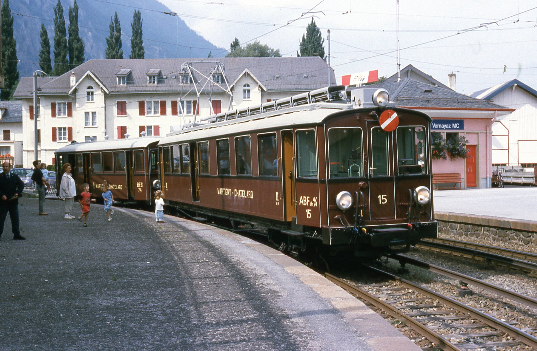 Preserved historic car 15 (type ABF) and trailer 74 (type BFZ) of the Martigny-Châtelard-Chamonix Railway, stopping at Vernayaz.